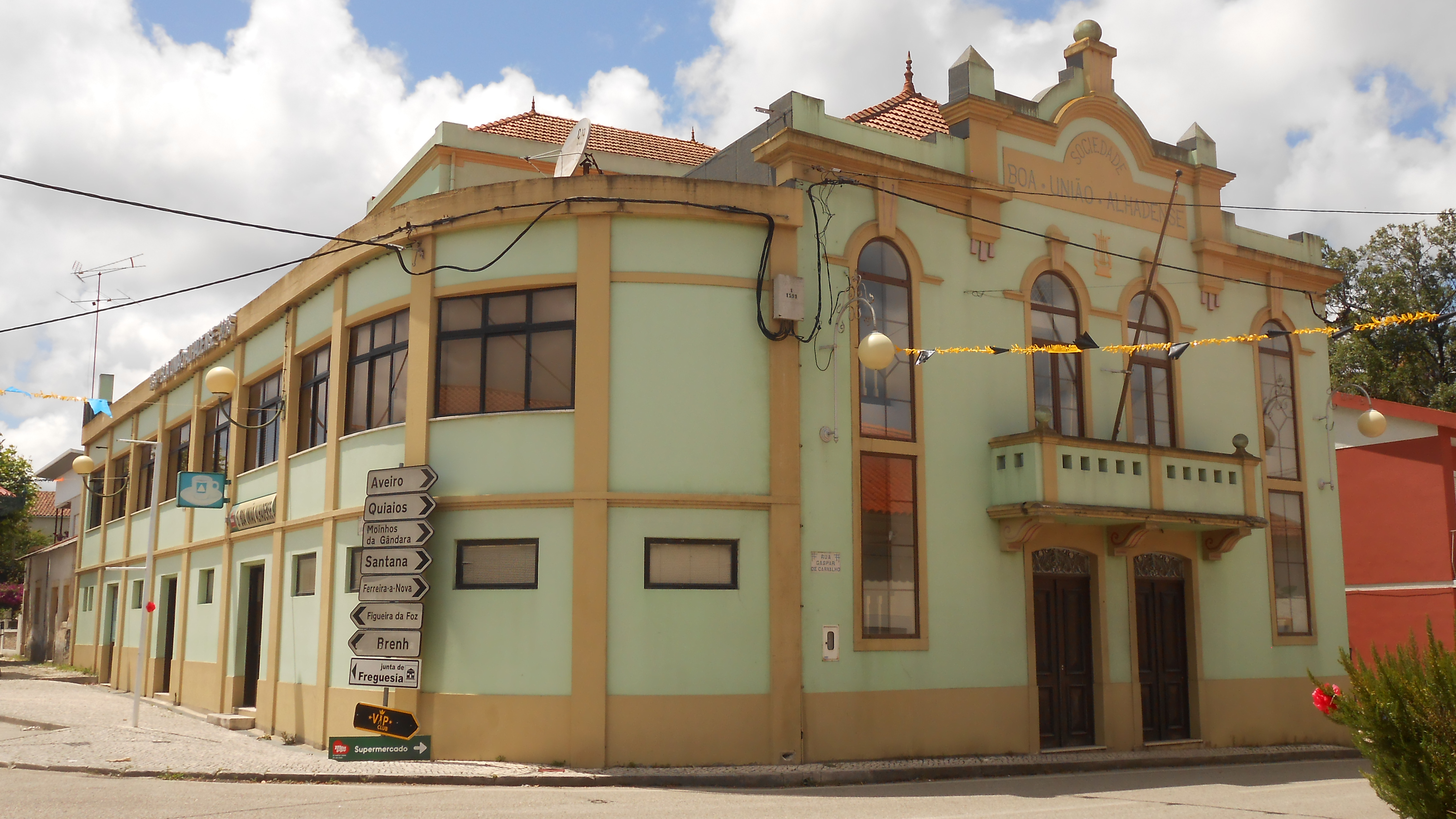 The building of the Sociedade Boa União Alhadense.